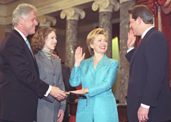 ClintonSenate swearing in